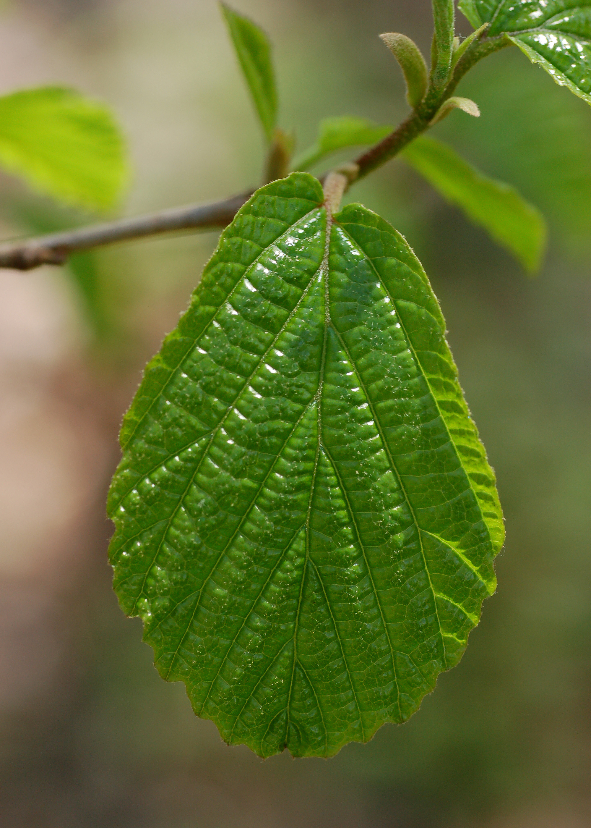 Photograph of a leaf of the Common Witch Hazelen (Hamamelis virginiana en ). Photo taken at the Mt. Cuba Center where it was identified.